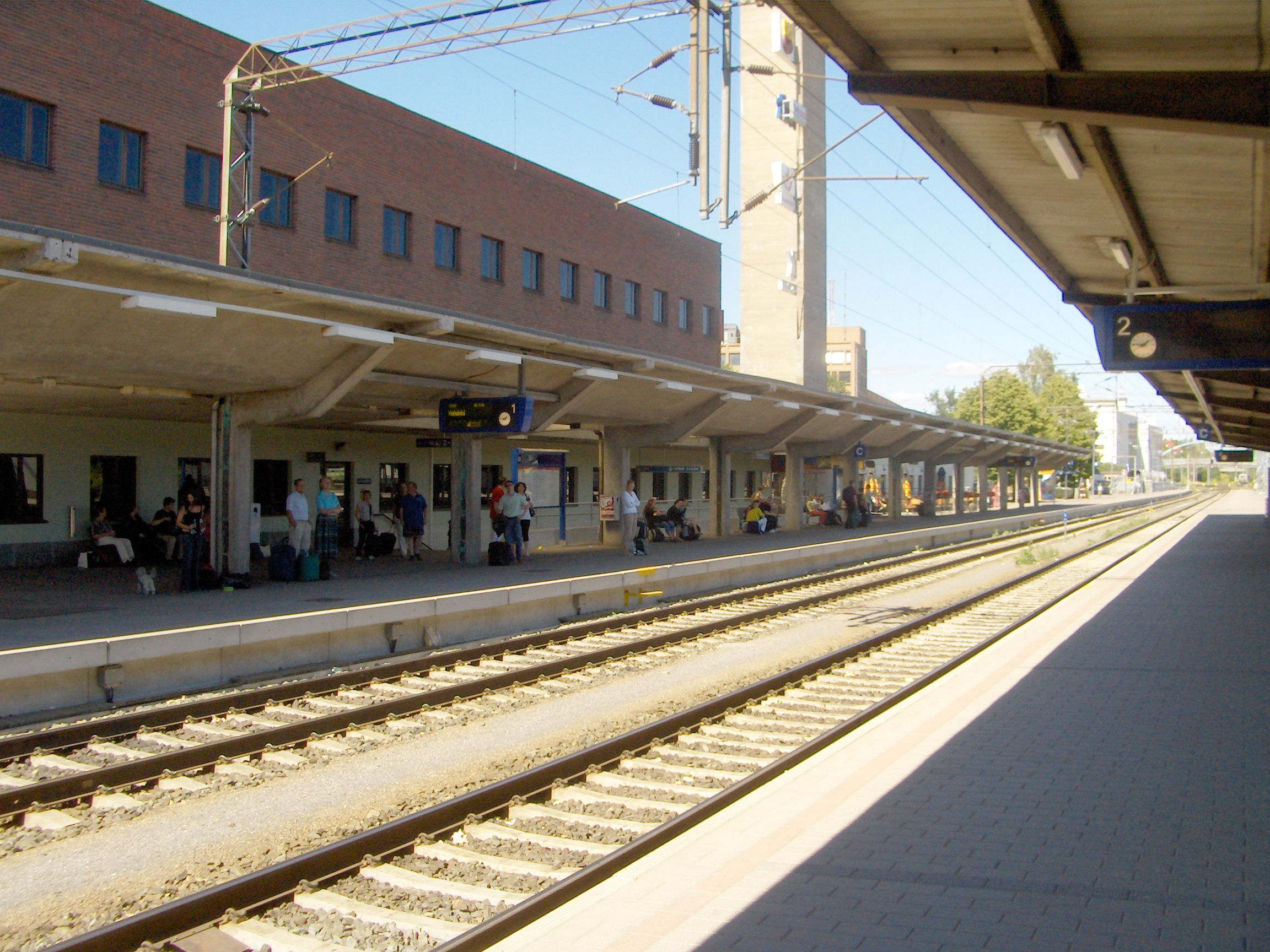 Tracks 1 and 2 in Tampere railway station